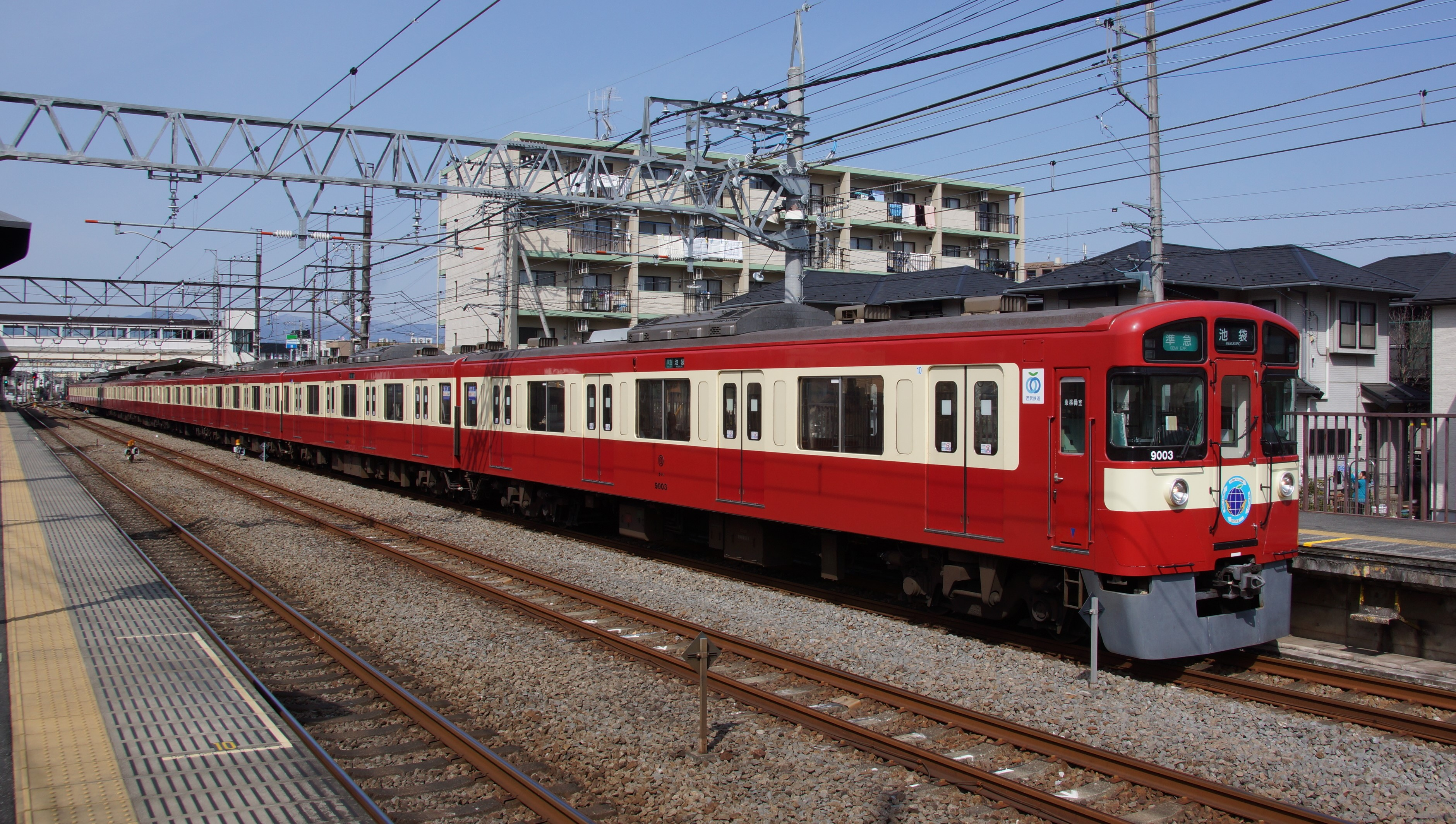 Seibu 9000 series EMU set 9103 in special "Red Lucky Train" livery at Bushi Station on the Seibu Ikebukuro Line in Saitama Prefecture, Japan